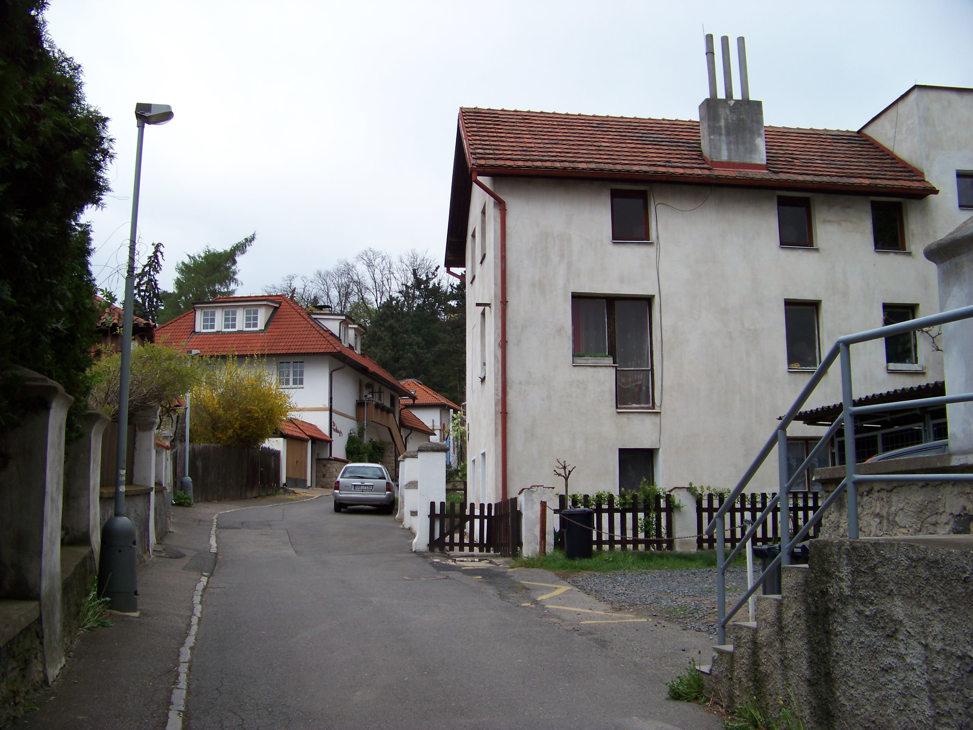 Prague-Podolí, Czech Republic. Pod Vyšehradem 69/20, 19/5.